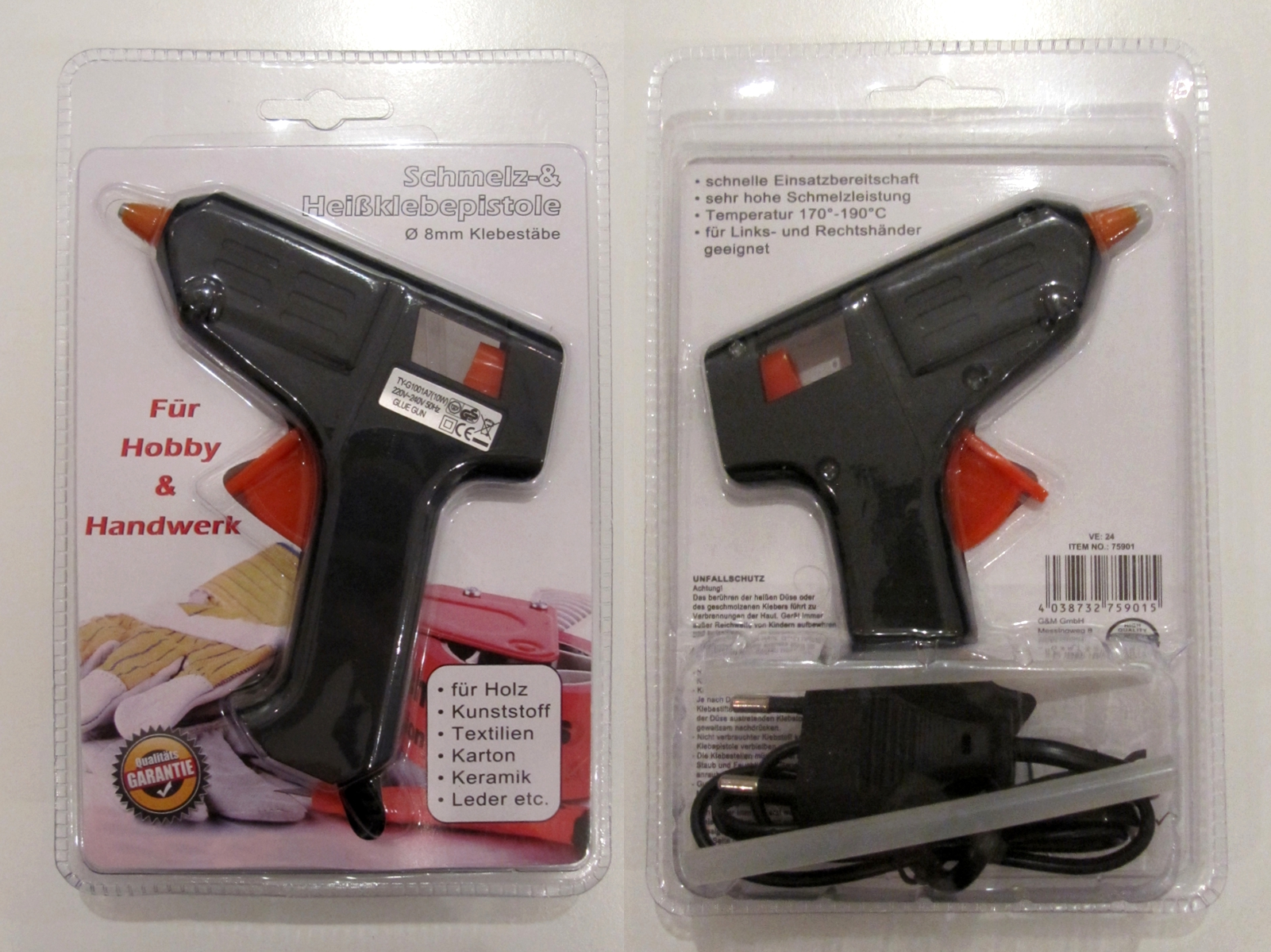 A glue pistol for 1 Euro.